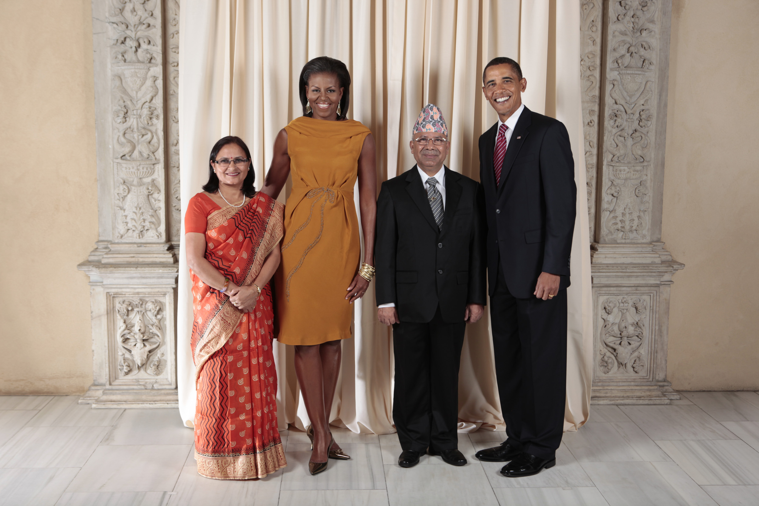 President Barack Obama and First Lady Michelle Obama pose for a photo during a reception at the Metropolitan Museum in New York with Madhav Kumar Nepal, Prime Minister of the Federal Democratic Republic of Nepal, and Mrs. Nepal.